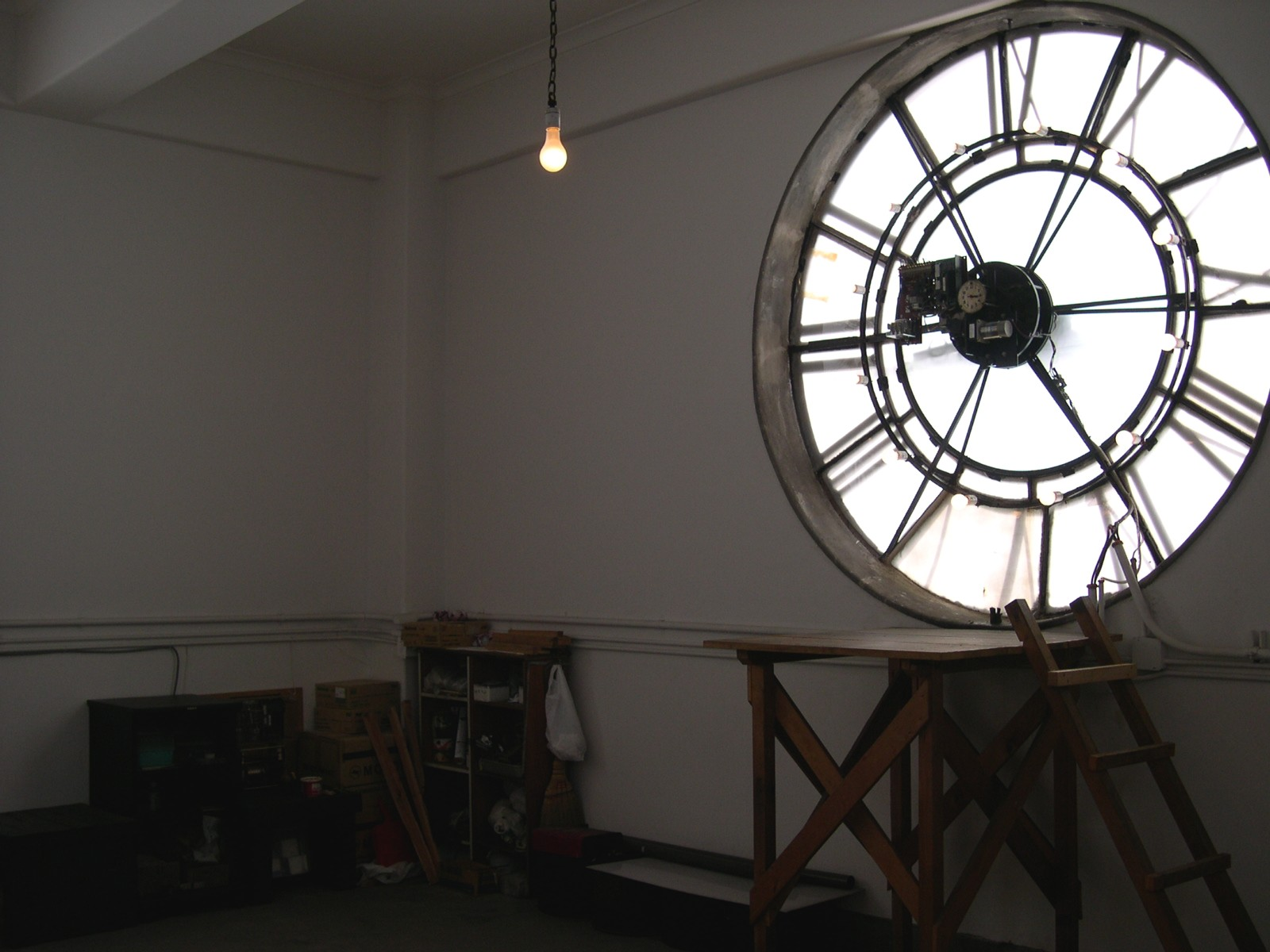 the inside of clocktower of Okuma auditorium (Waseda university). Clocks have diameter of 2 meter.